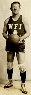 Source: Digitally enhanced detail from an image in the private collection of Michael Moran, used with permission of the owner, who scanned it, modified it, uploaded it to Wikipedia, and released it into the public domain. Eighty years ago this PR photo was released to newspapers and printed on postcards without copyright claims or credits.